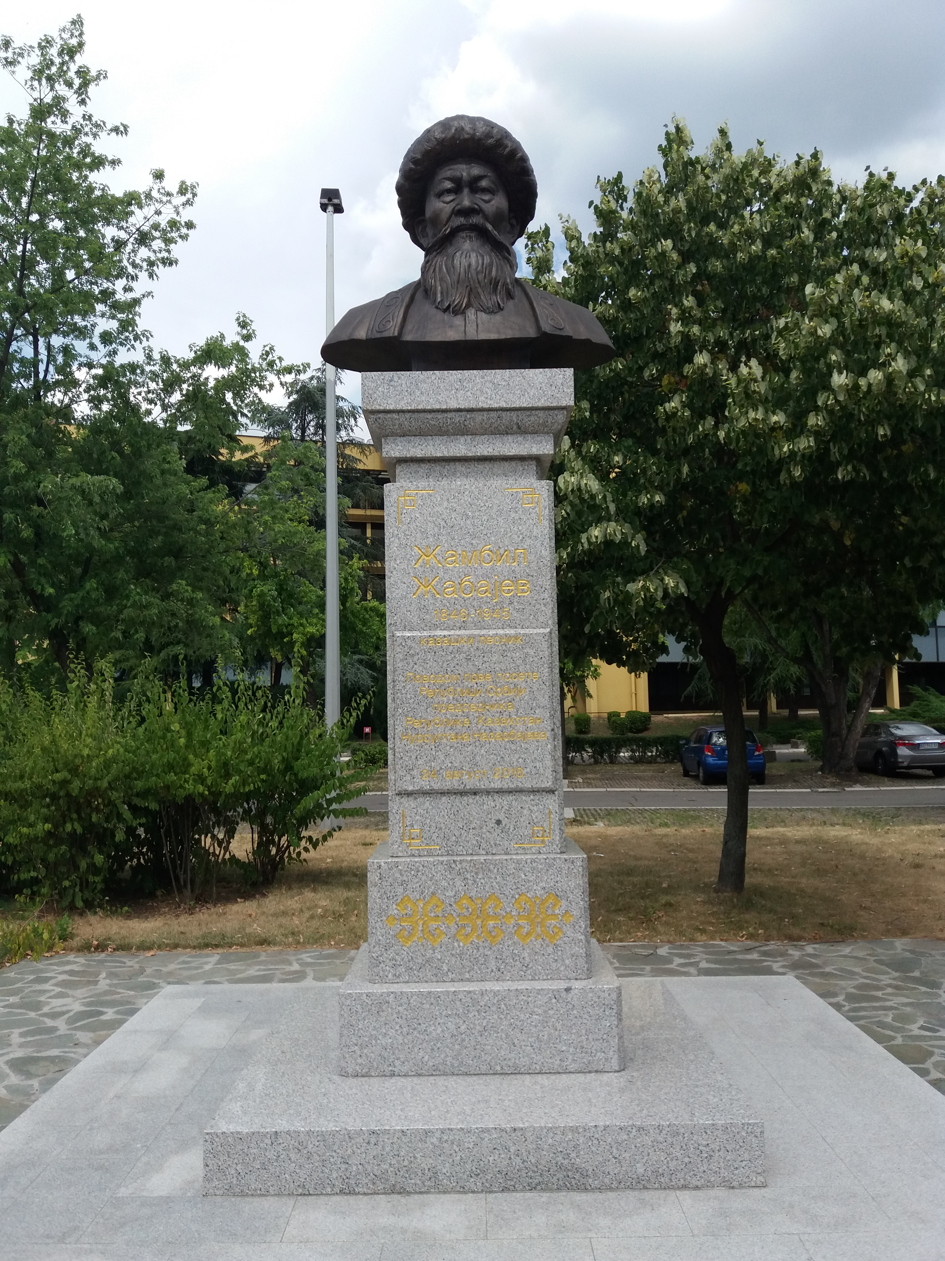 Zhambyl Zhabaev bust in Belgrade.